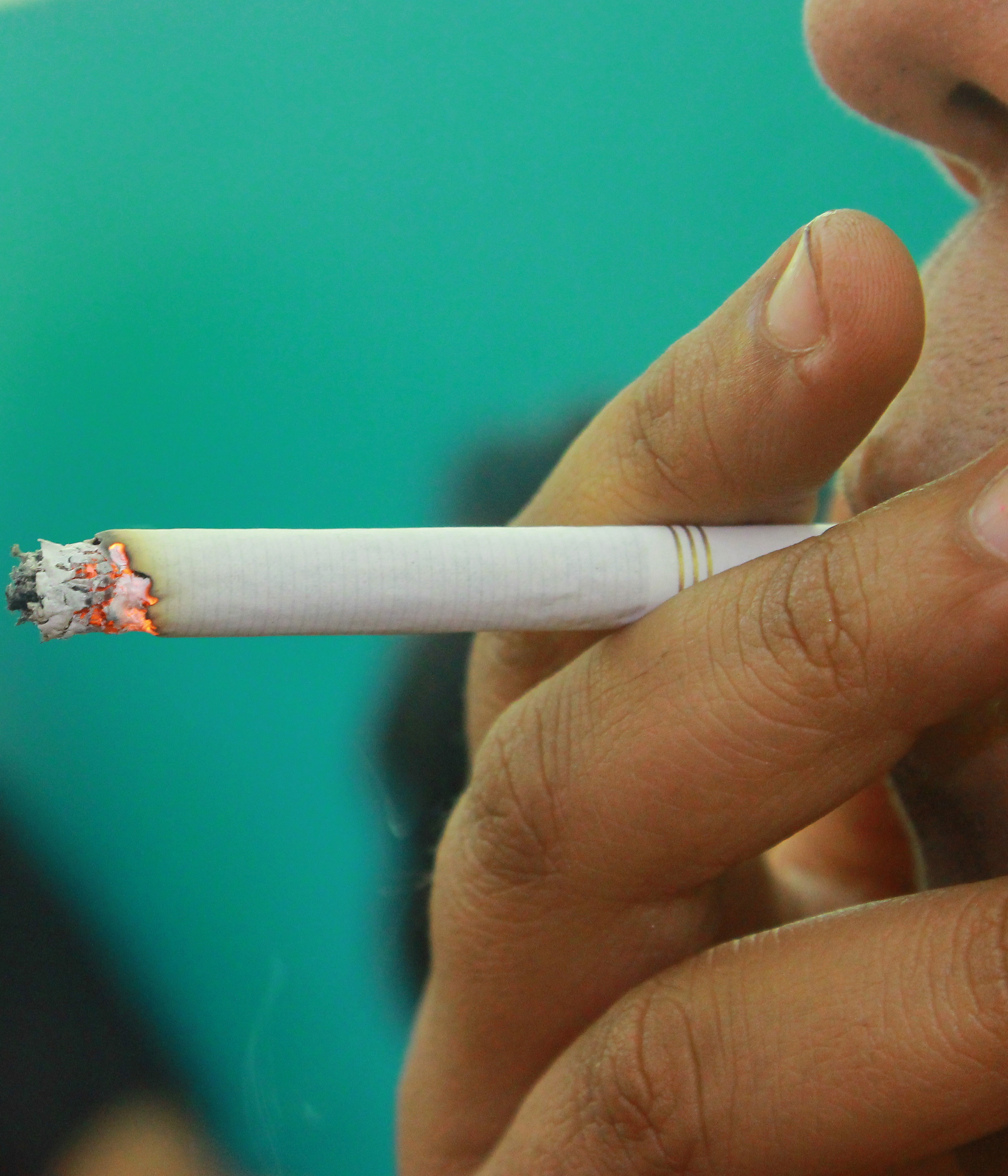 Cigarette